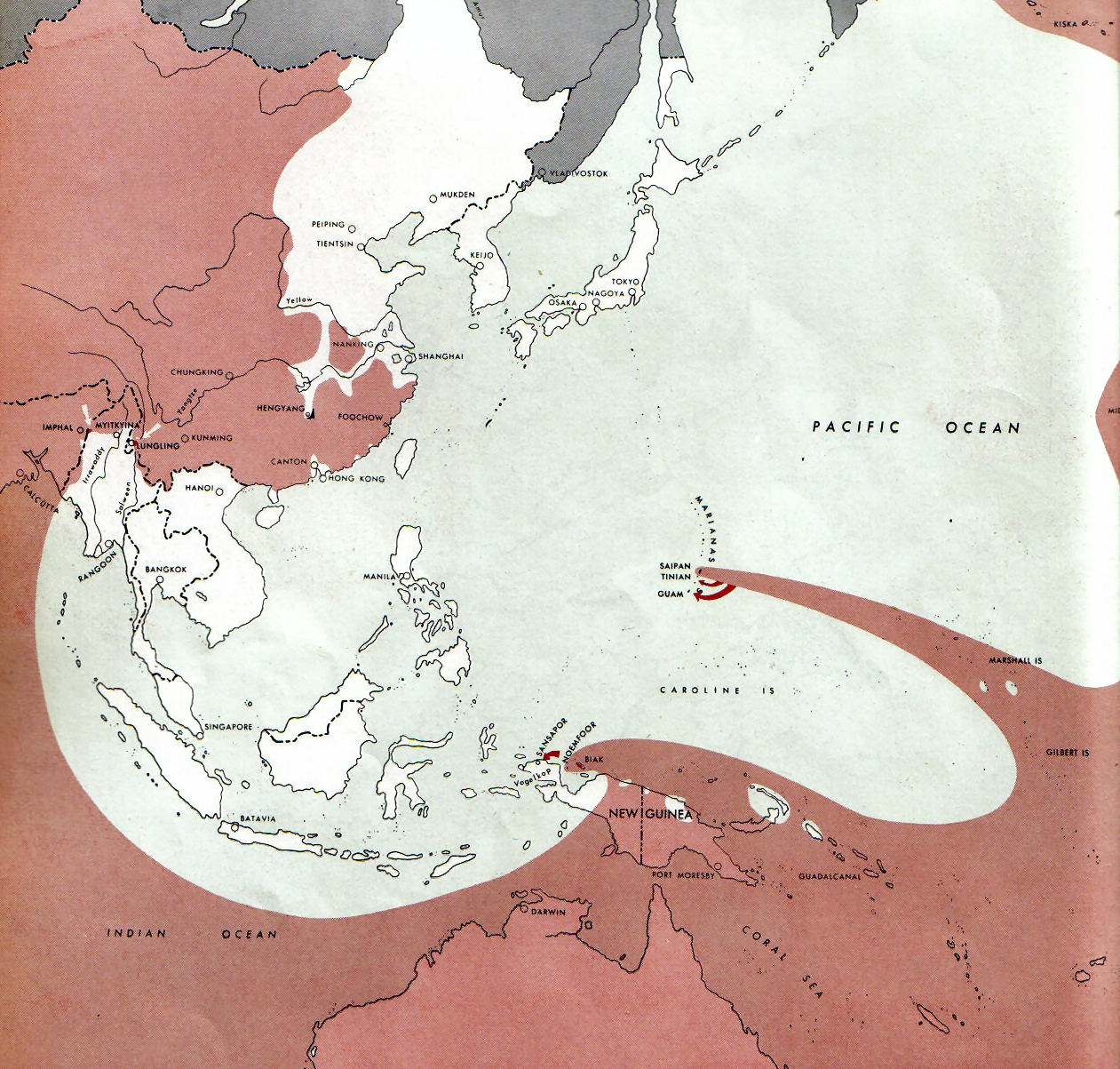 Map of the front against Japan as of 1 Aug 1944: This map is taken from the source "Atlas of the World Battle Fronts in Semimonthly Phases to August 15th 1945: Supplement to The Biennial report of The Chief of Staff of the United States Army July 1, 1943 to June 30 1945 To the Secretary of War". (See Cover, Forward and Map details)